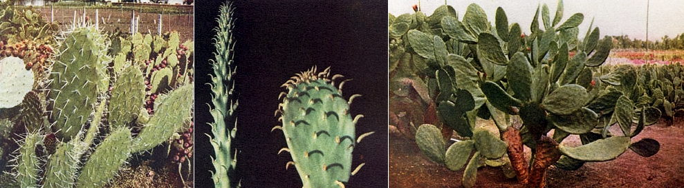 Burbank's spineless cactus transformation.